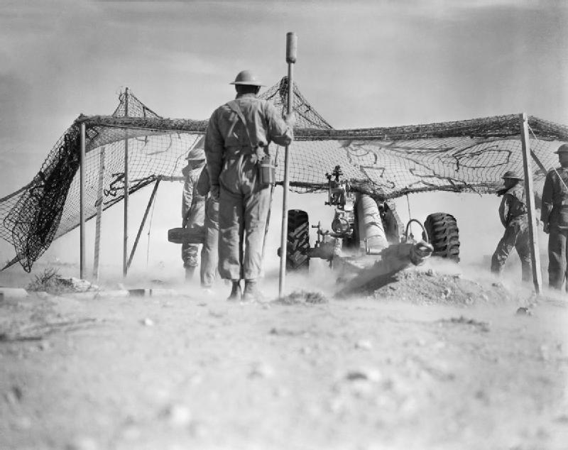 British 7.2-inch howitzer crew in action during the attack on Bardia.